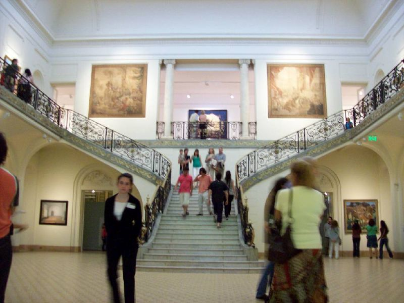 Main Hall in the Eva Perón Fine Arts Museum (Ferreyra Palace), Córdoba, Argentina.